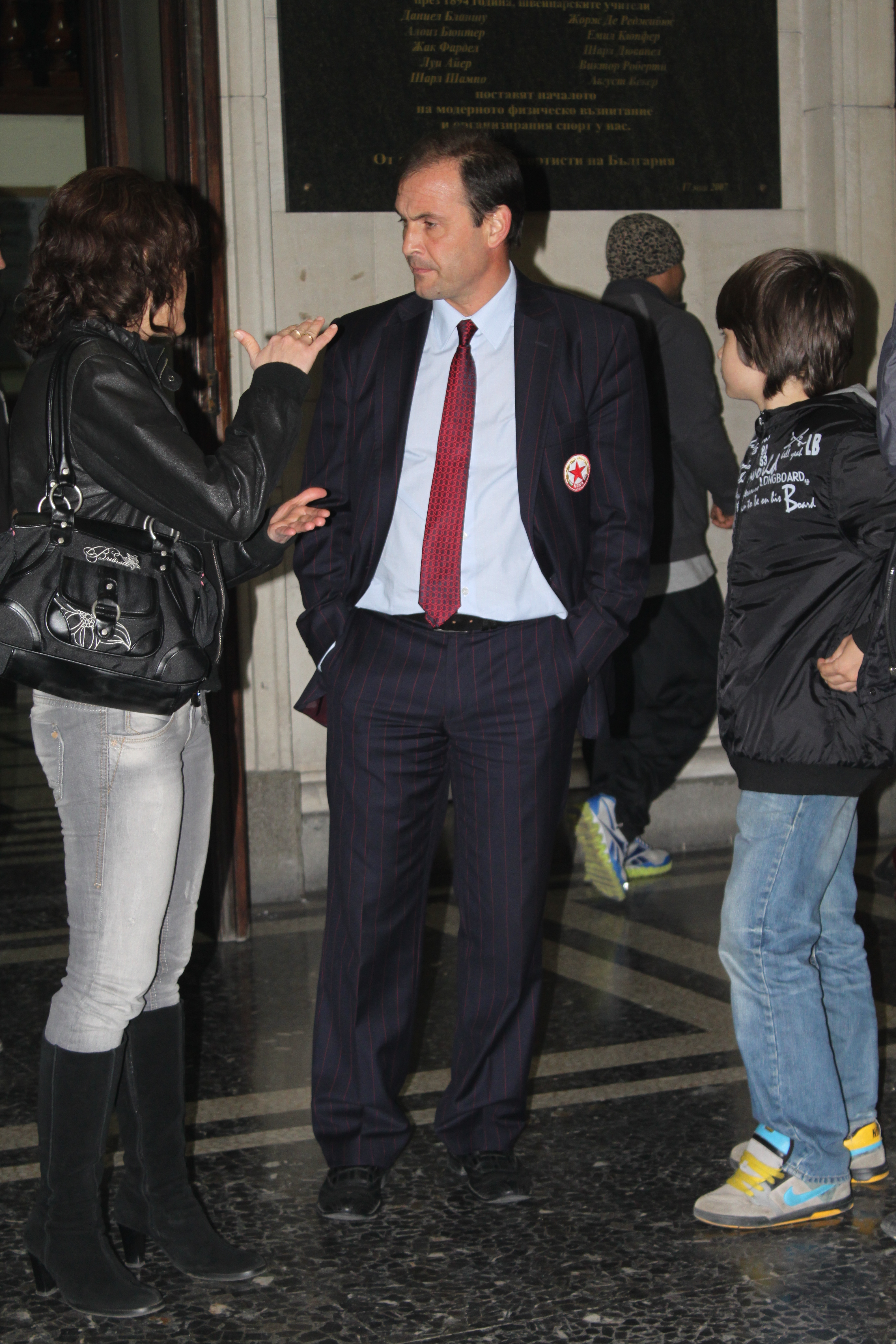 Dimitar Dimitrov "The Cowboy" - former bulgarian soccer referee, now sport manager in CSKA Sofia